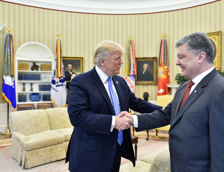 Working visit to the United States of America